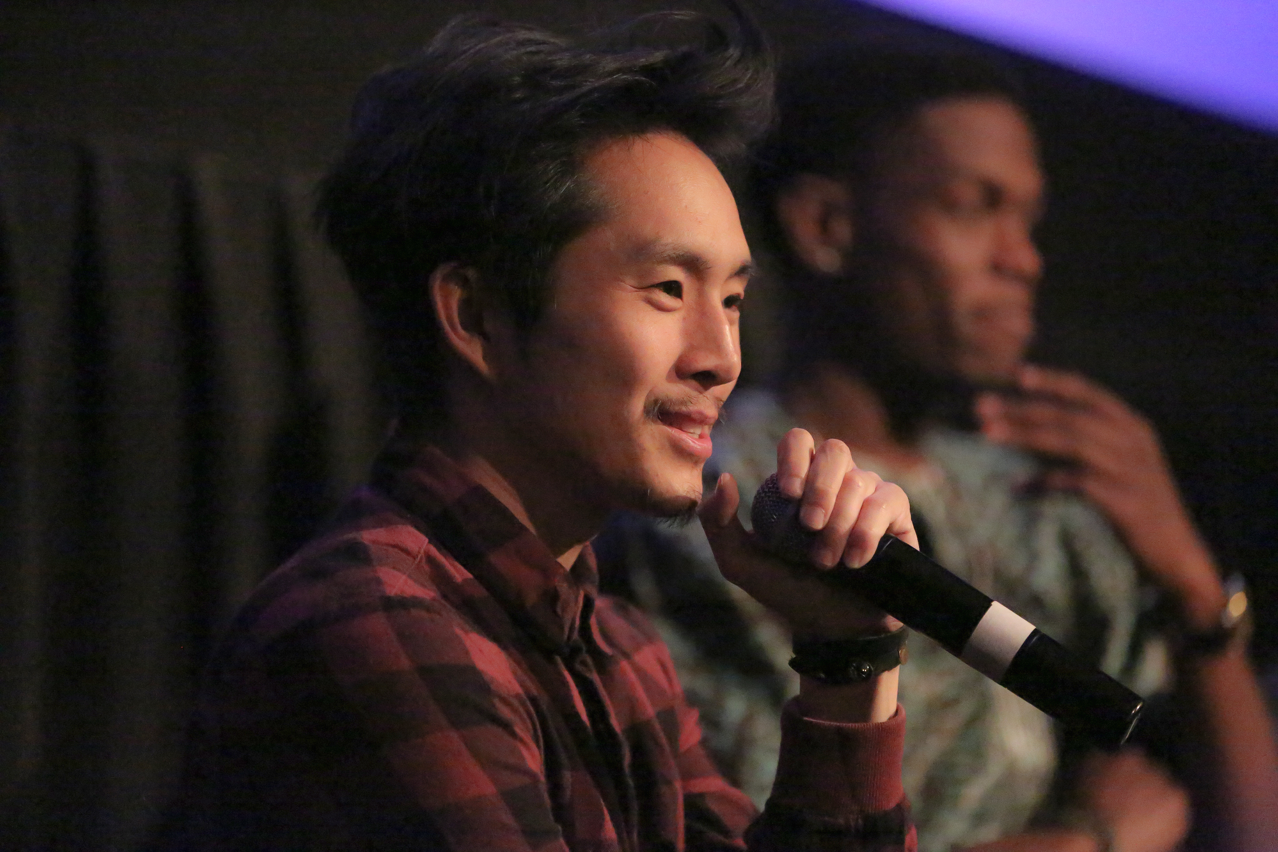 Justin Chon speaking about his film "Gook" at the Montclair Film Festival 2017 in New Jersey. Actor Curtis Cook Jr. can be seen in the background.